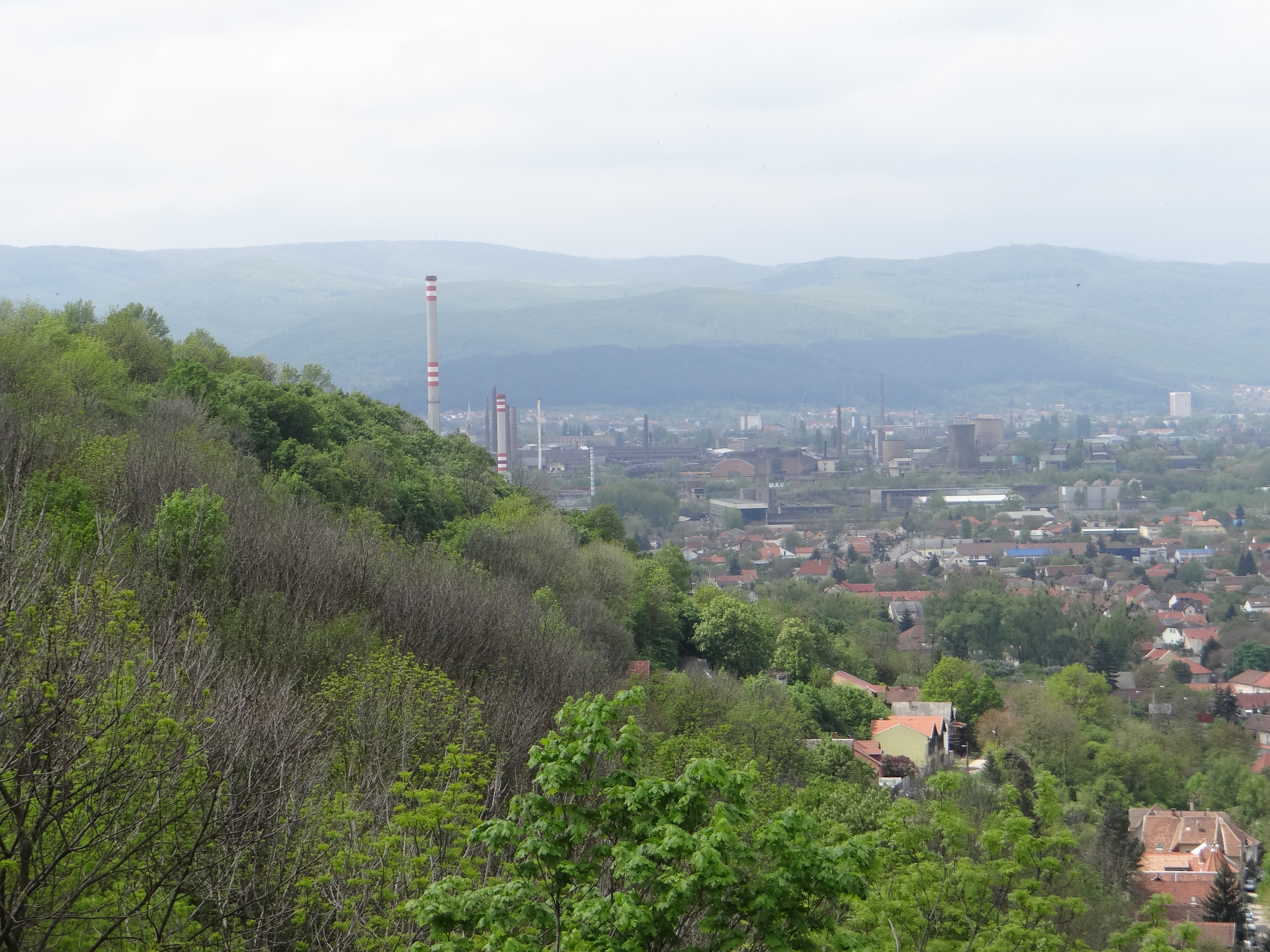 Diósgyőr-Vasgyár from Avas TV Tower, Hungary